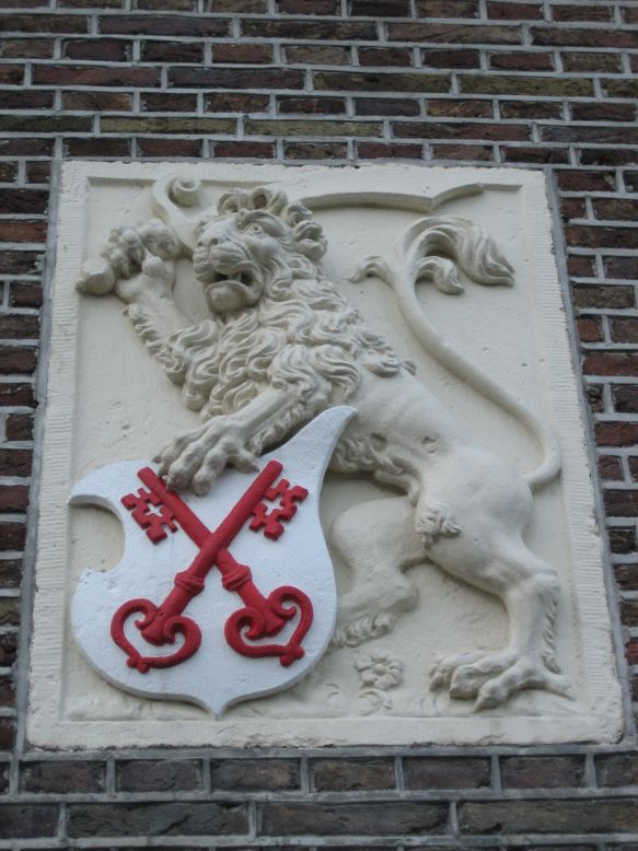 Coat of Arms of the city of Leiden (The Netherlands). It's situated on the façade of the Stedelijk Museum De Lakenhal, at the Oude Singel in Leiden.